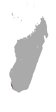 Grandidier's Mongoose (Galidictis grandidieri) range